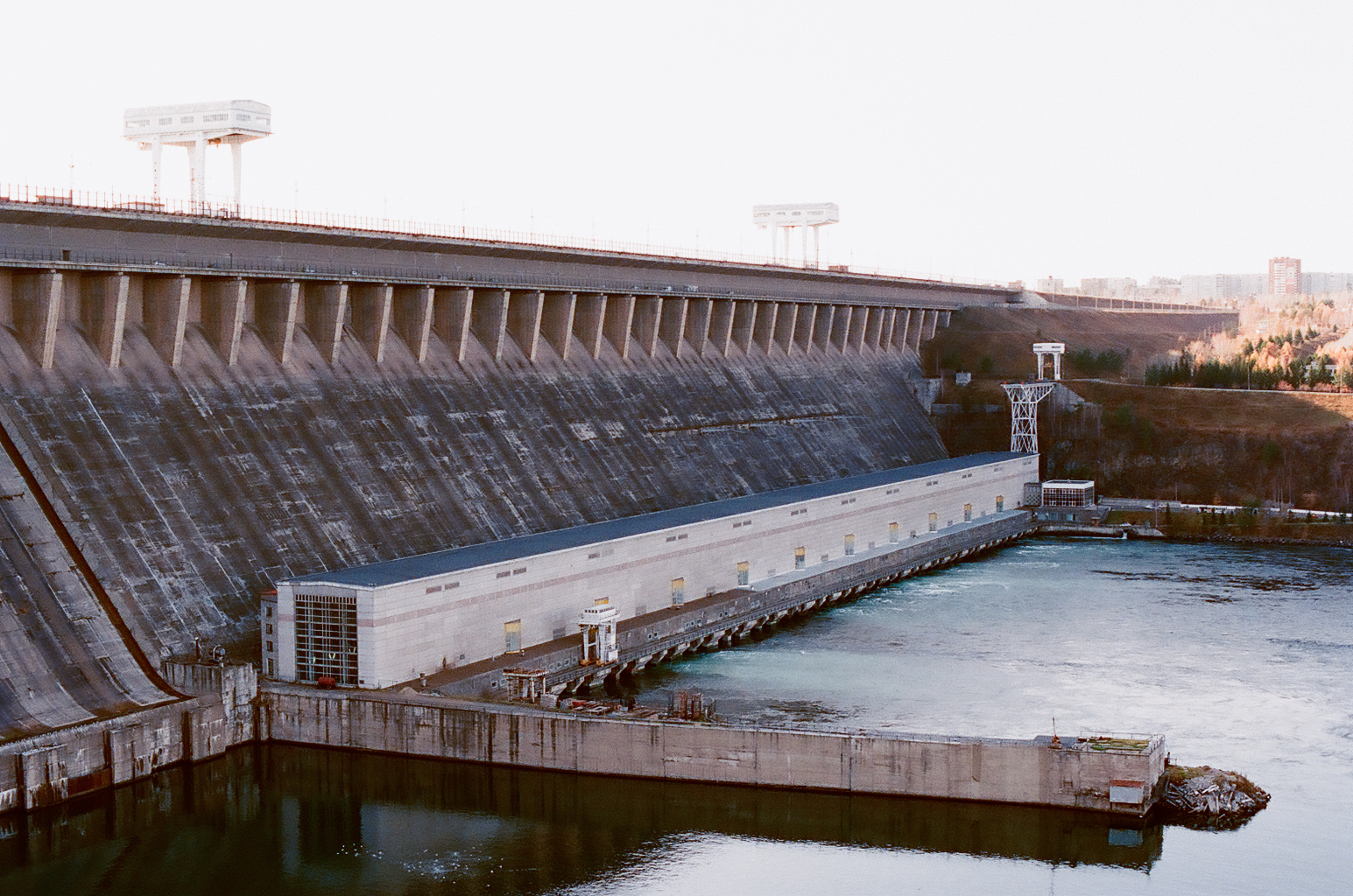 Bratsk hydropower station.